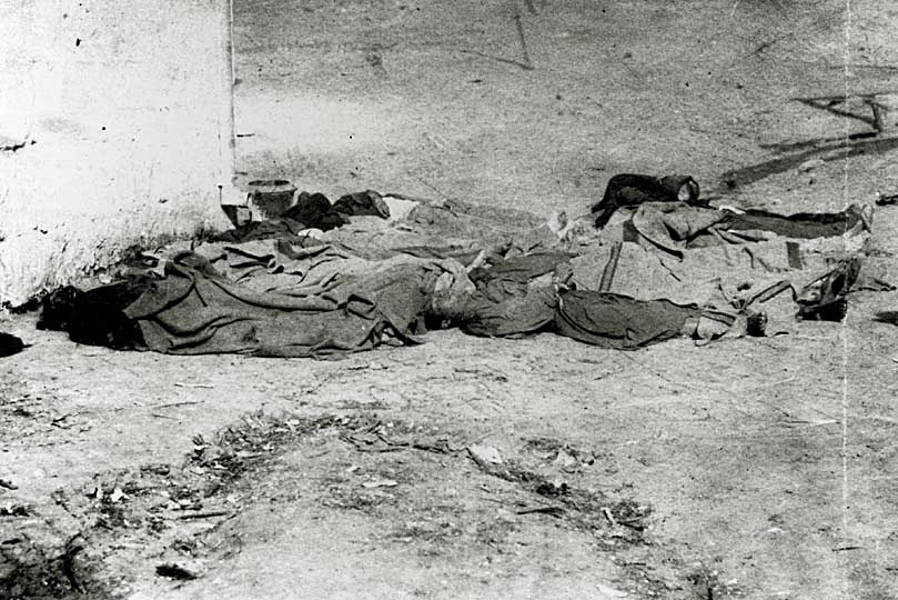 This photograph shows corpses of Chinese immigrants who were murdered during the Chinese massacre of 1871 in Los Angeles, California.